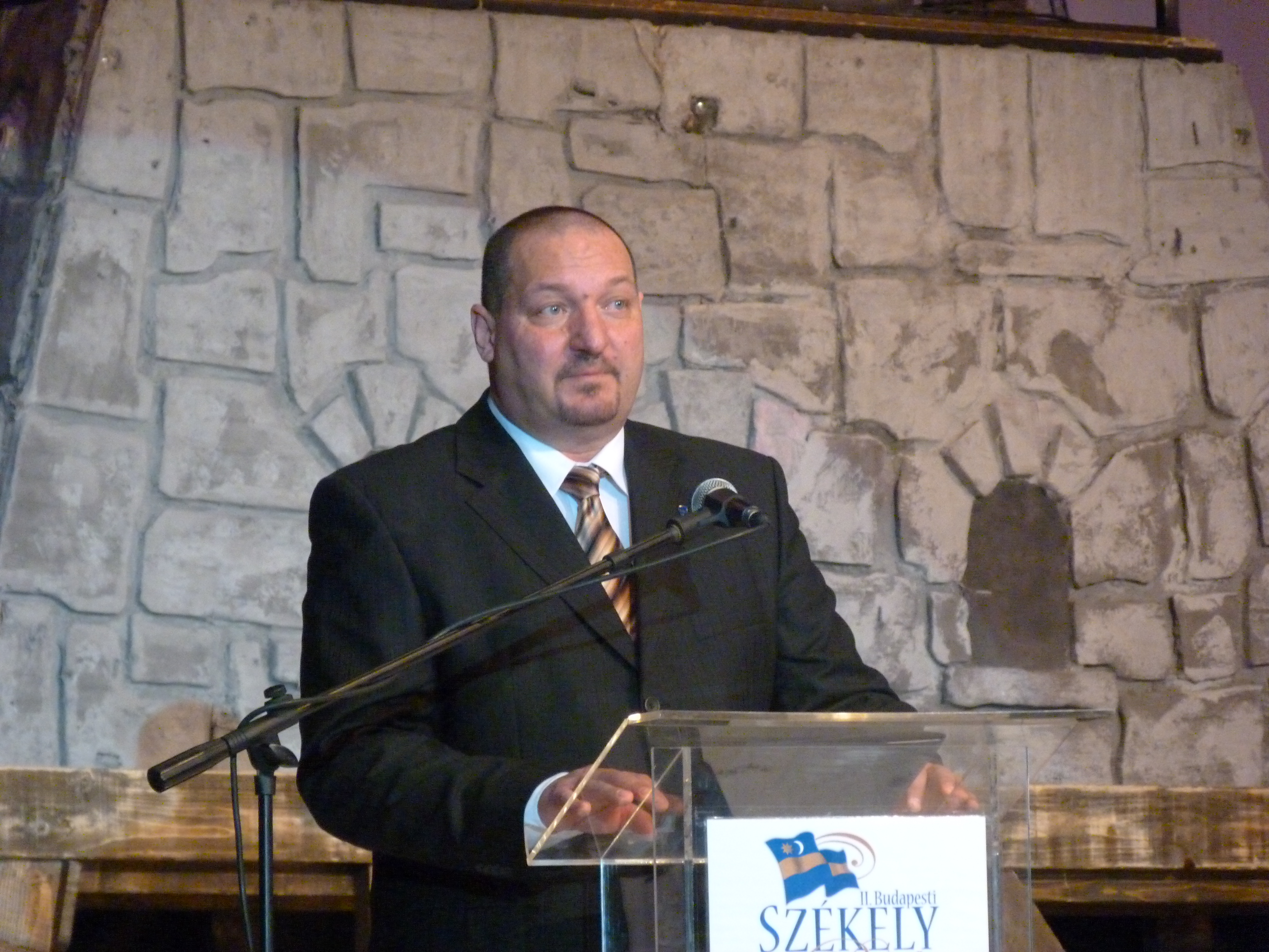 Live on the 14th of February, 2015. Budapest, Várkert Bazár. II. Budapest Székely Ball. Németh Szilárd (Fidesz MPP) was awarded Honorary Székely Award by Kövér László and Szász Jenő